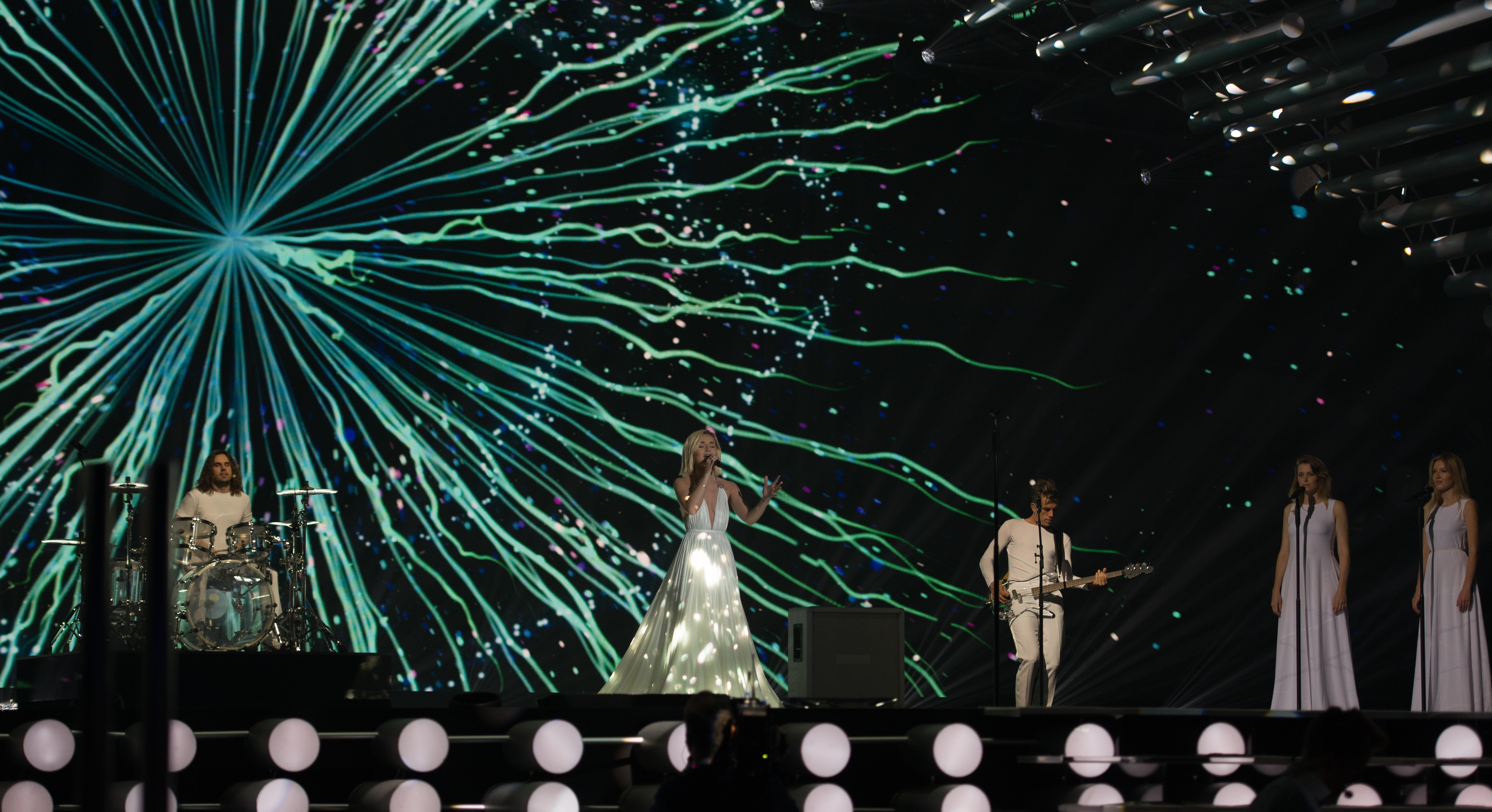 Eurovision Song Contest Vienna 2015: Polina Gagarina